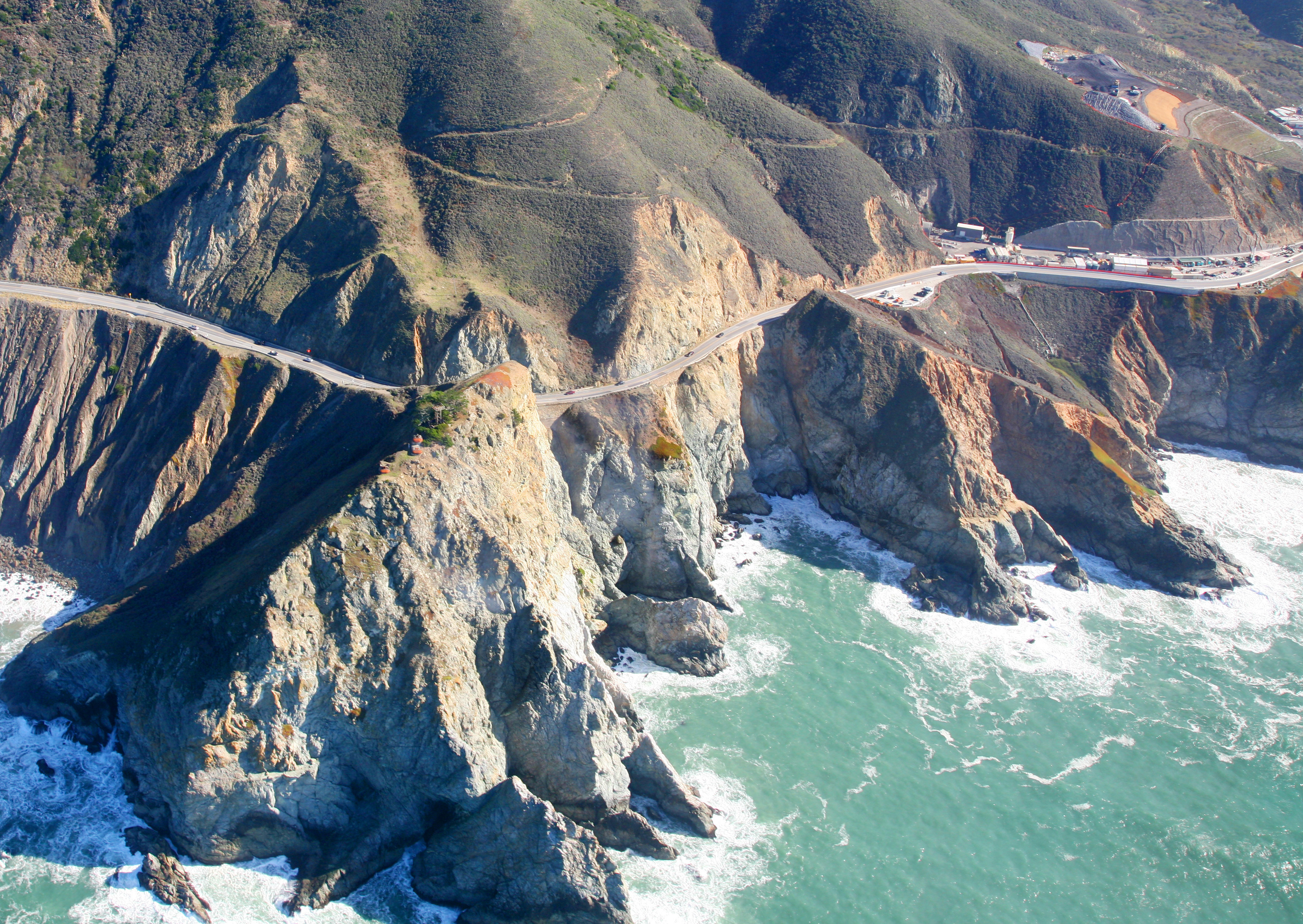 The road along the coast south from San Francisco passes along beaches as well as along steep cliffs. At one such spot it traditionaly fails every winter, and part of the road falls into the ocean, the road is closed, and what for some people used to be a 15 minute drive turns into an hour's detour to get to work. Repairs can take anywhere from 6 weeks (good) to most of a year (bad)